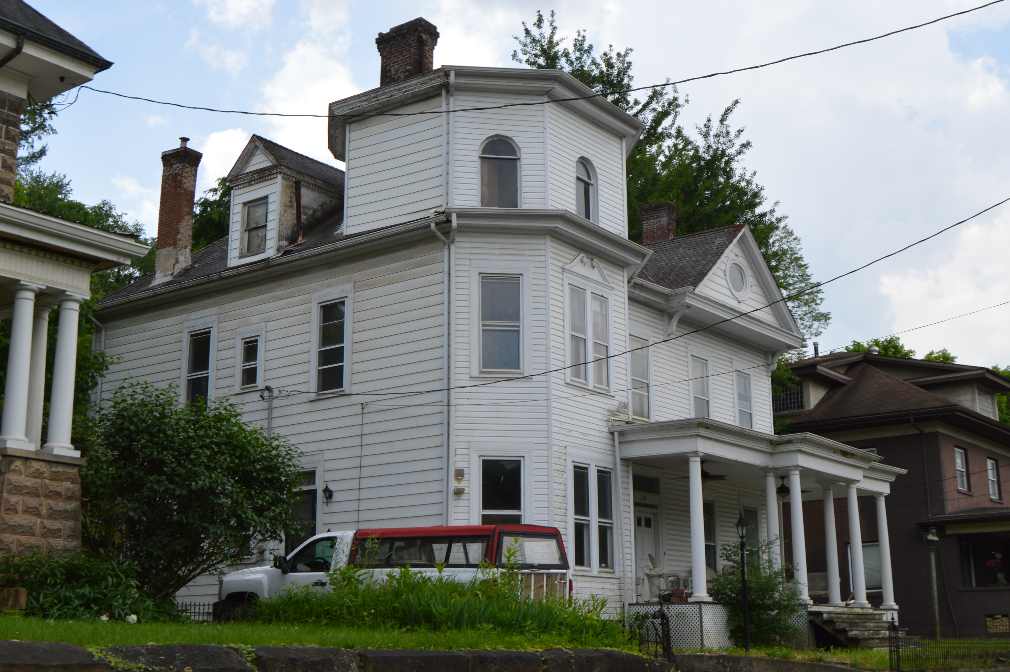 Front and eastern side of the William Edgar Haymond House, located at 110 S. Stonewall Street in Sutton, West Virginia, United States. Built in 1894, it is listed on the National Register of Historic Places.